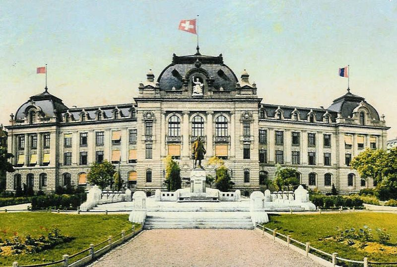 Coloured postcard from the collection of Hans-Ulrich Suter, Bern